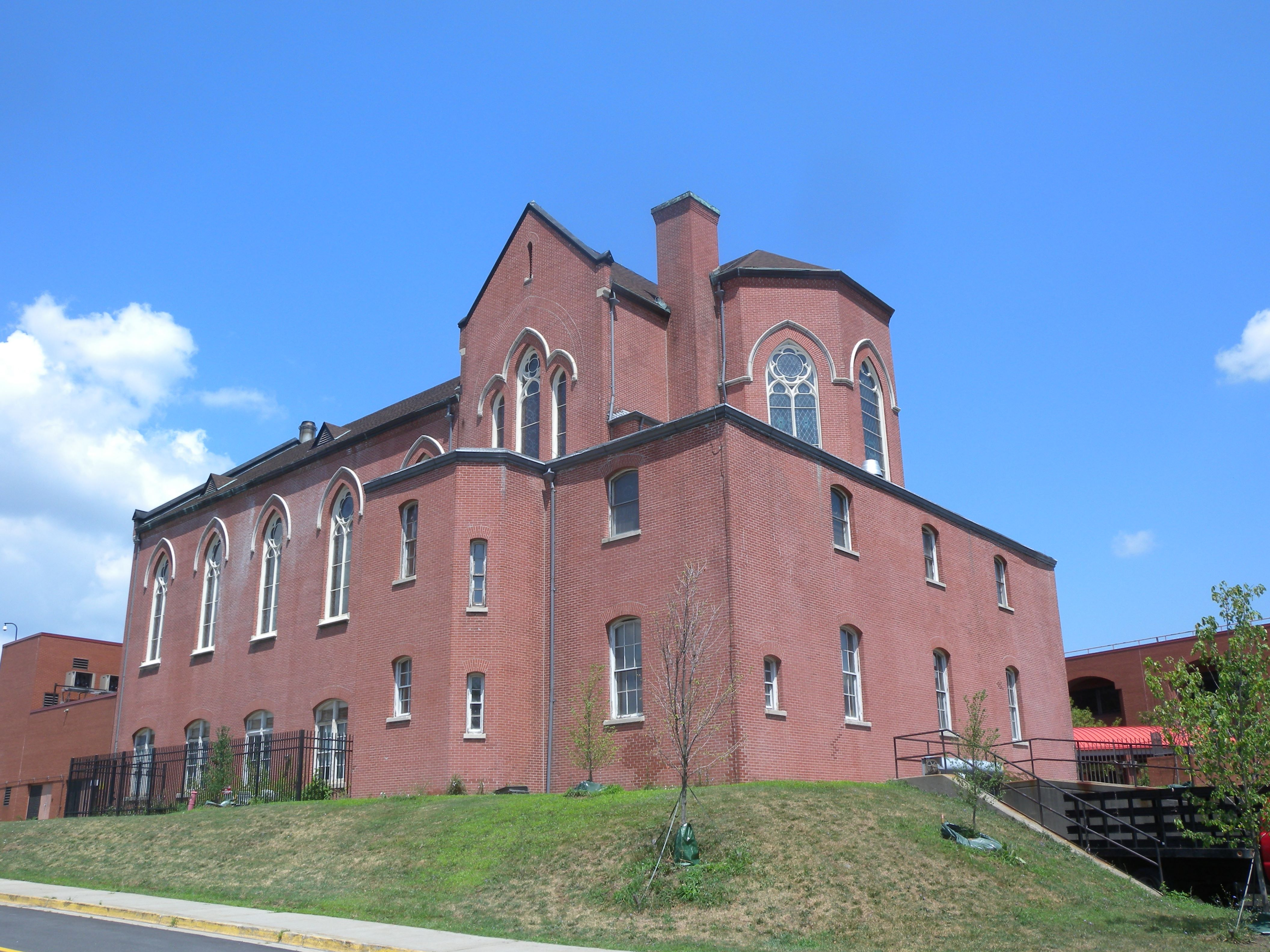 Looking north at chapel of Peters verterans hospital on a sunny midday.